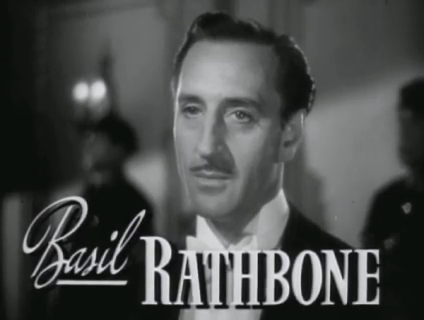 Basil Rathbone in Above Suspicion, by Richard Thorpe (1943)